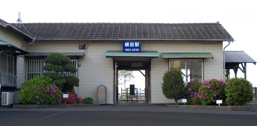 Yokota Station on the Kururi Line.